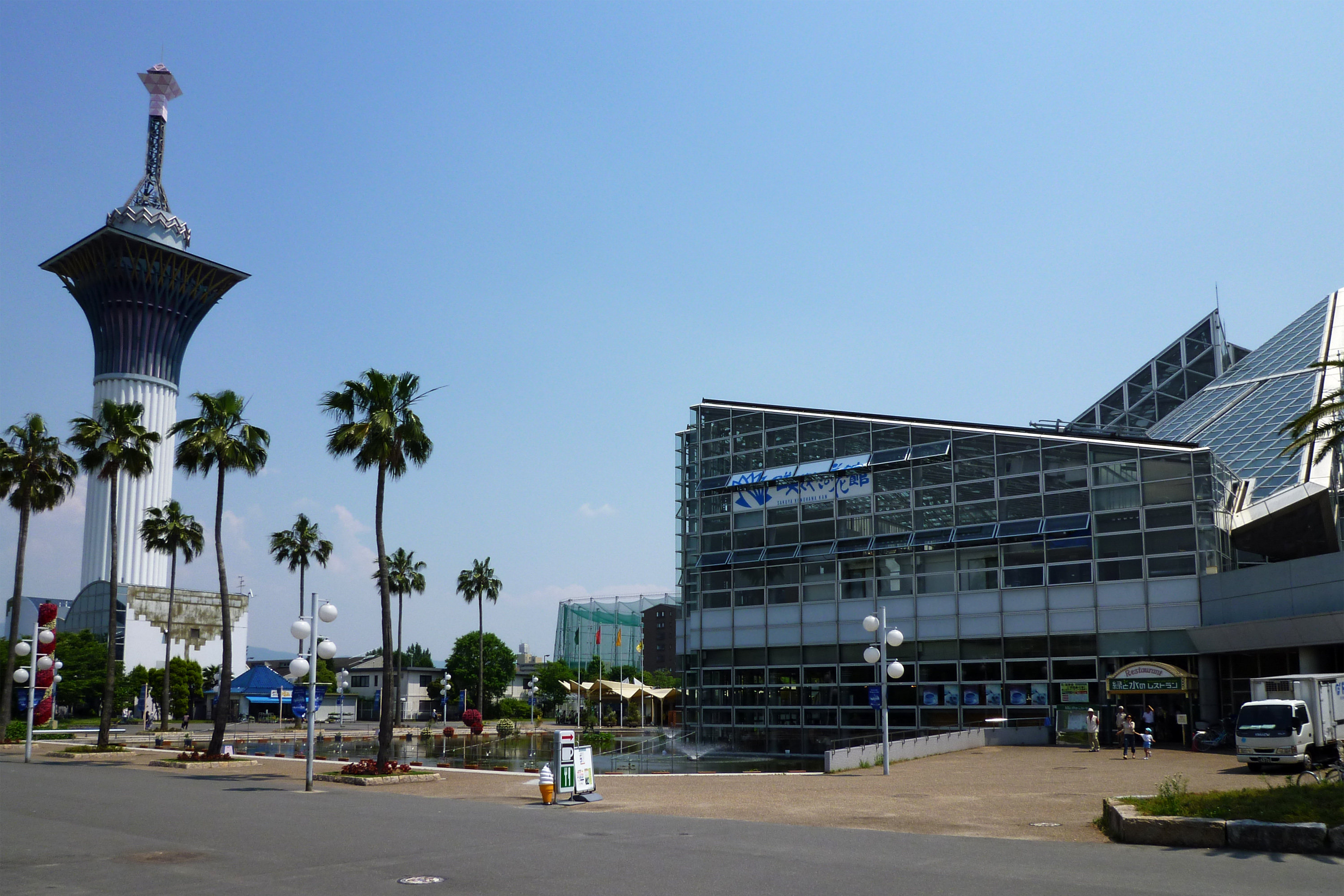 Hanahakukinenkoen Turumiryokuchi, Osaka, Osaka prefecture, Japan.